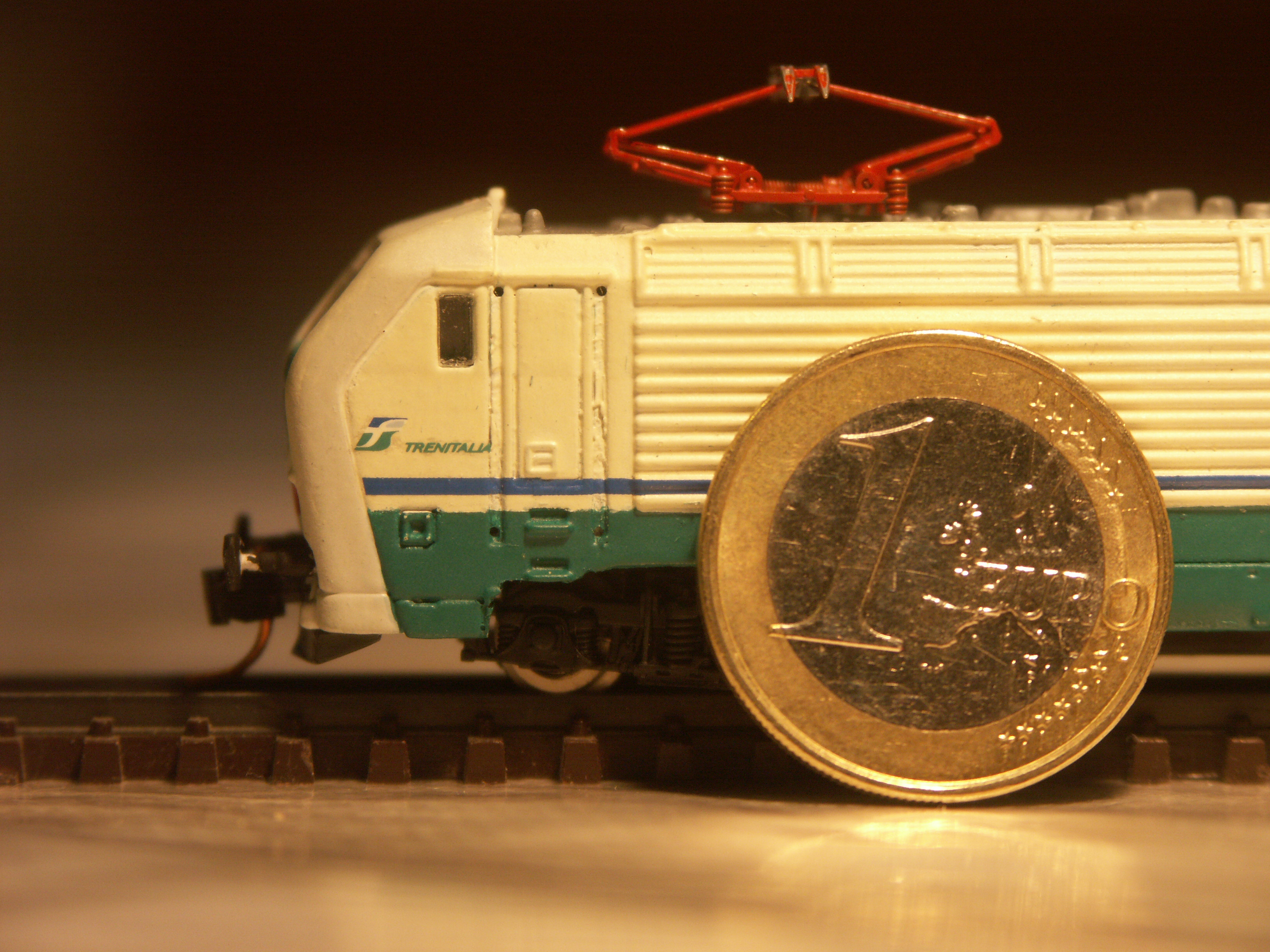 Model in N scale of the Trenitalia E402B electric locomotive, seen close to a 1 Euro coin to show the dimension